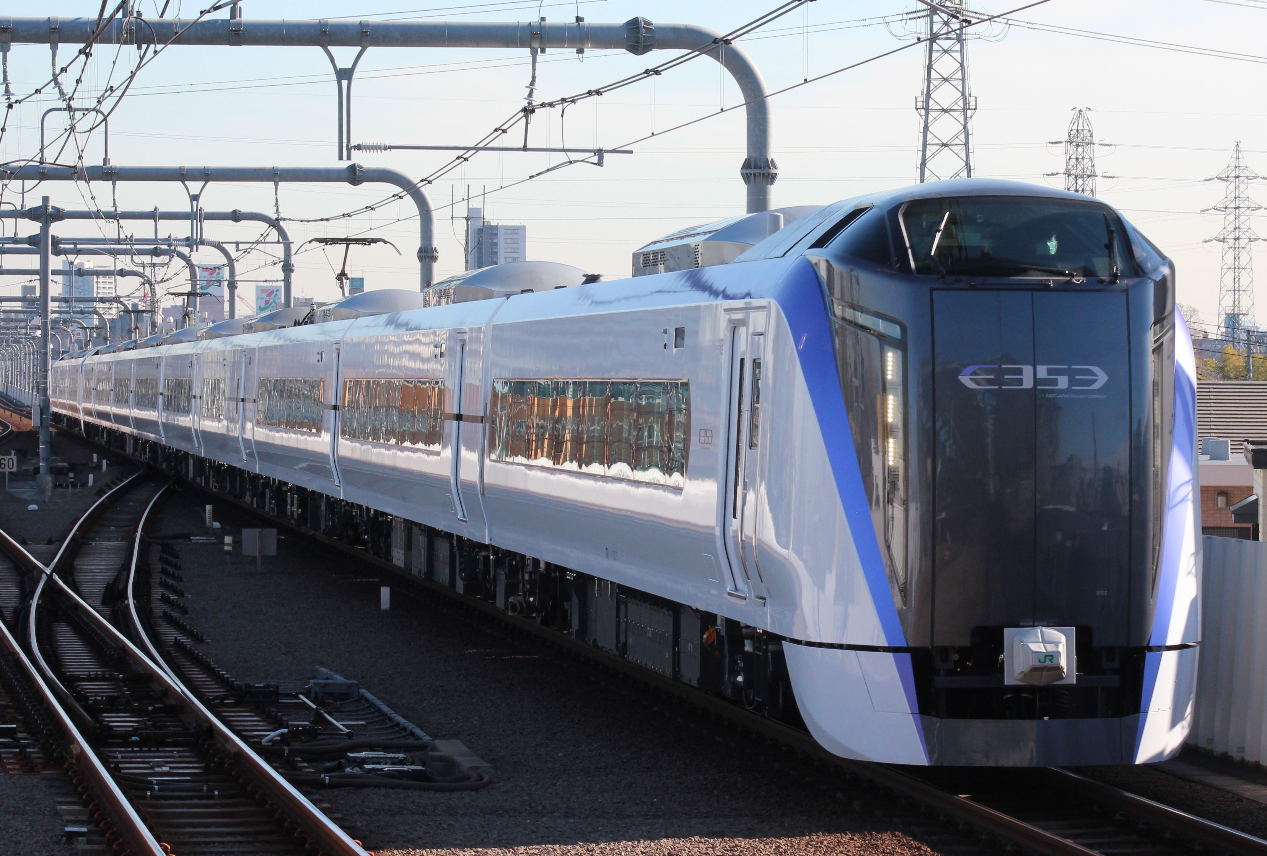 A JR East E353 series EMU formation approaching Higashi-Koganei Station on a Super Azusa service